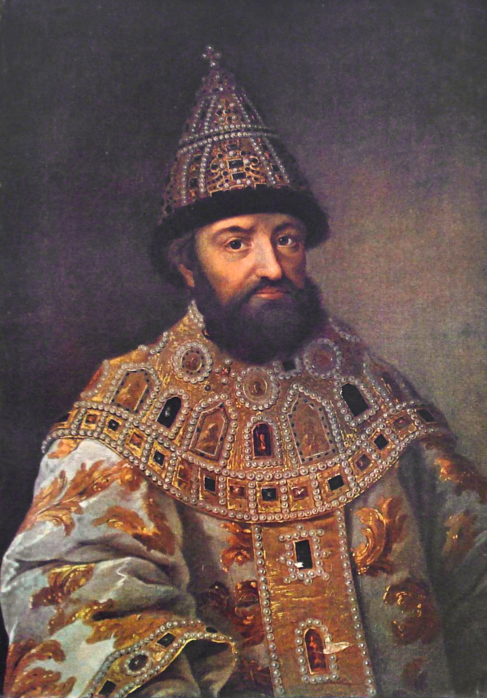 Michail Romanov